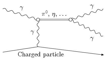 Primakoff effect Feymnan diagram